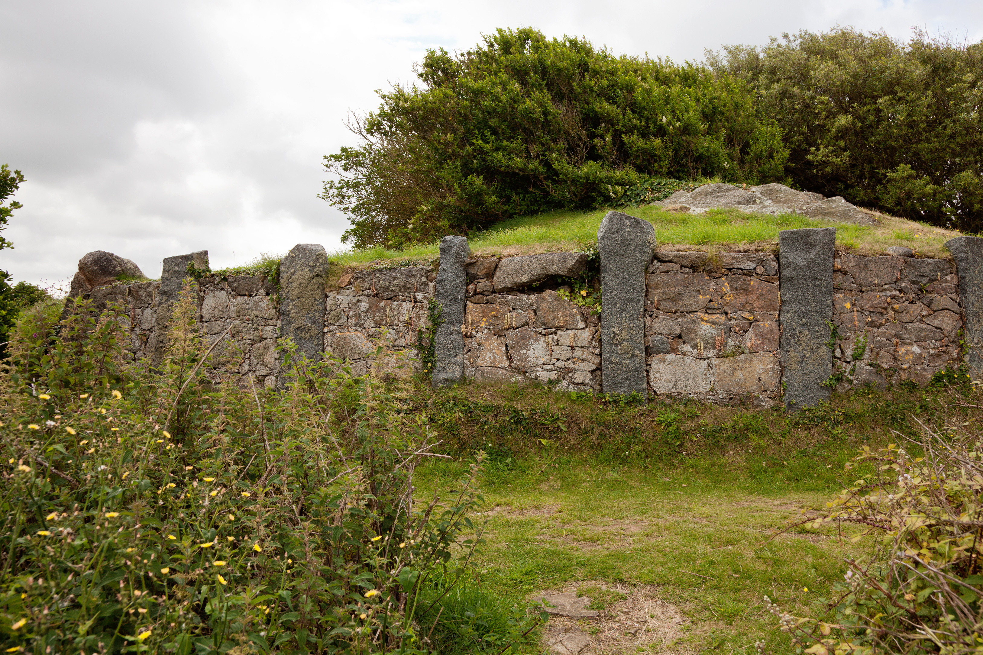 La Creux es Faies, prehistoric passage grave, Guernsey